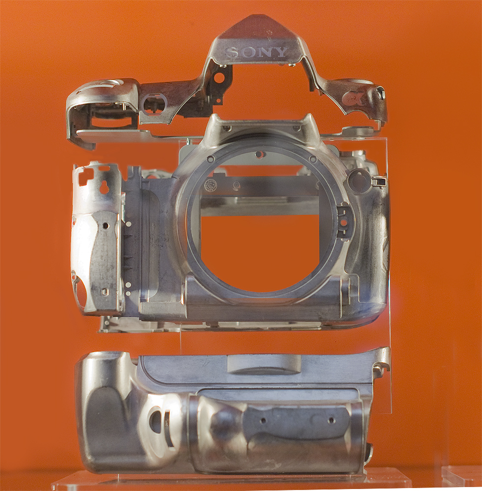 Sony Alpha 900 Magnesium Alloy body model (model made and owned by Sony Corporation)